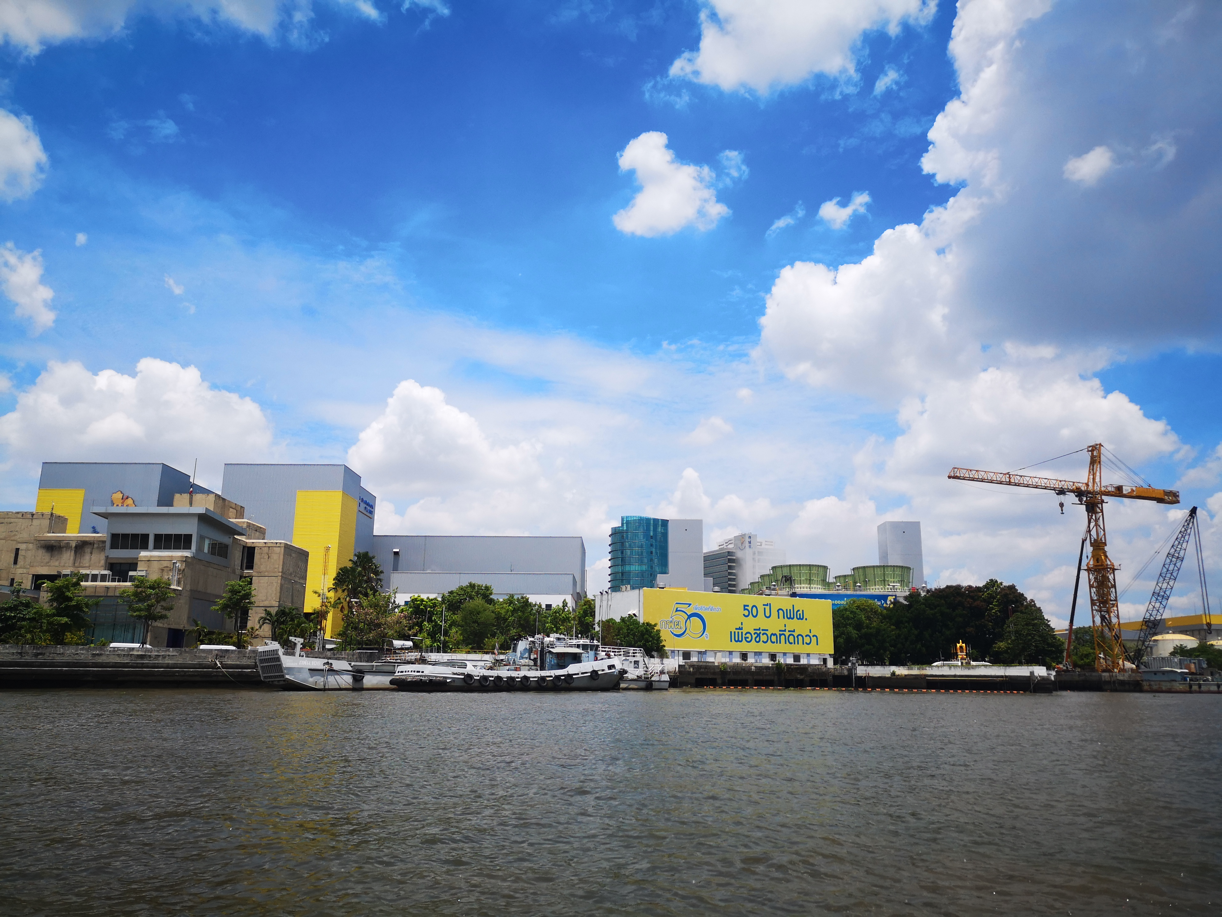 Electricity Generating Authority of Thailand